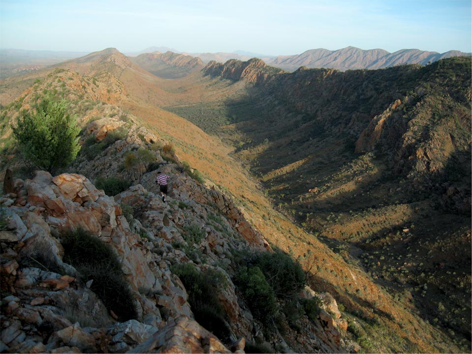 Larapinta Trail, Alice Springs.